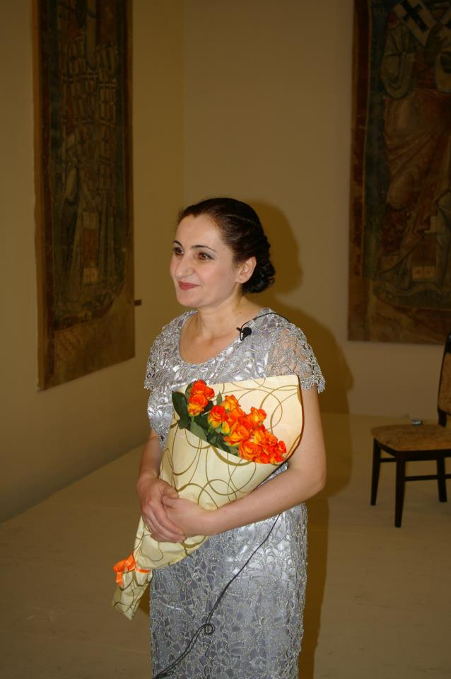 Professor Tsovinar Hovhannisyan with flowers